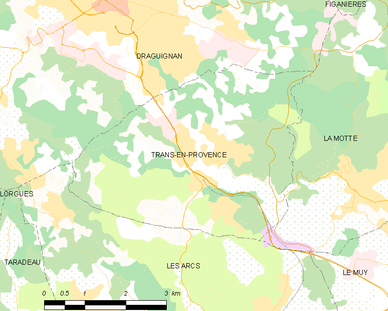 Map of French municipality Trans-en-Provence